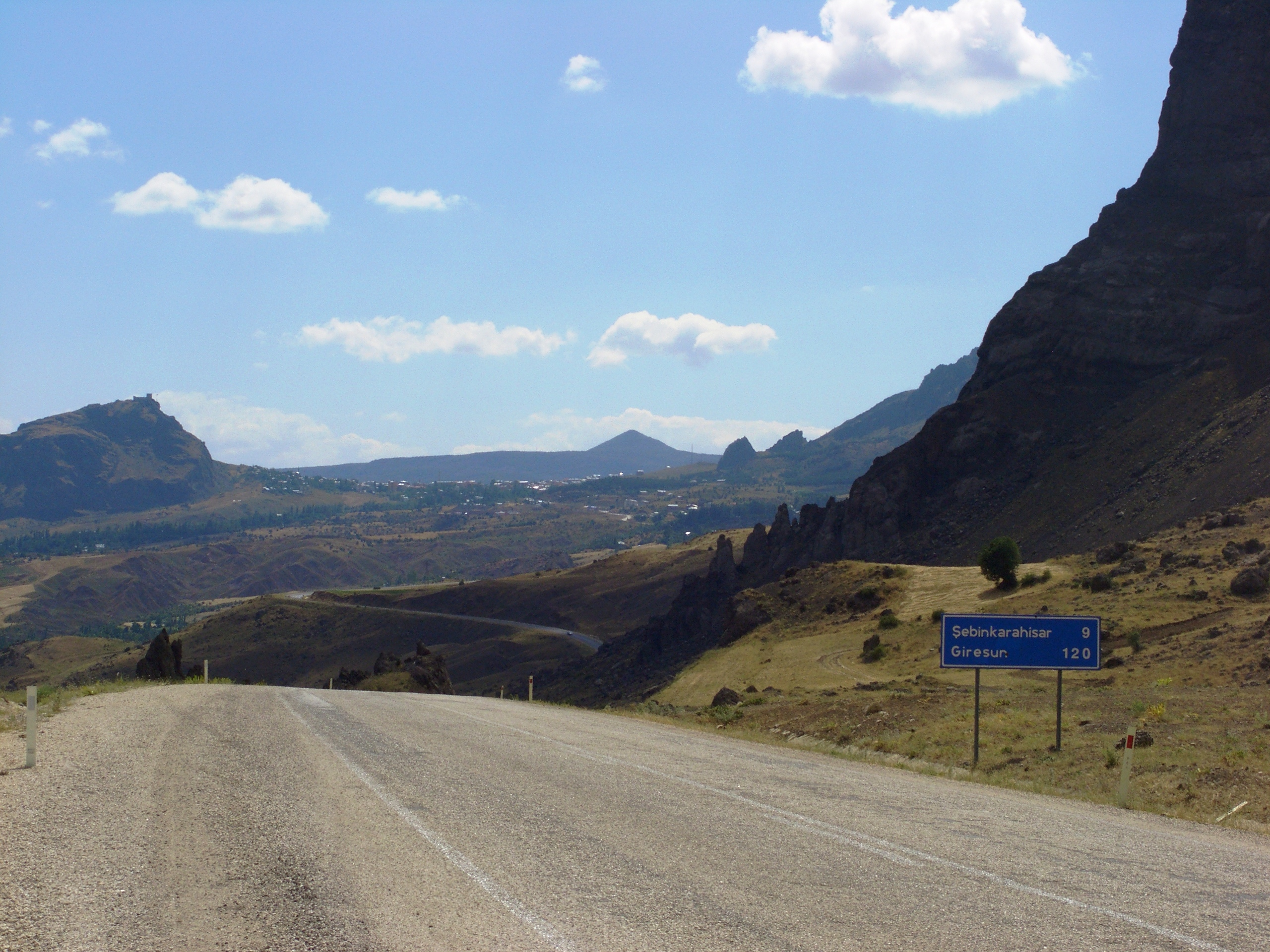 A view pf Sebinkarahisar (shae-been-ka-rah-is-ar) town from the East side. The town is the capital of Sebinkarahisar District of Giresun Province in Turkey.